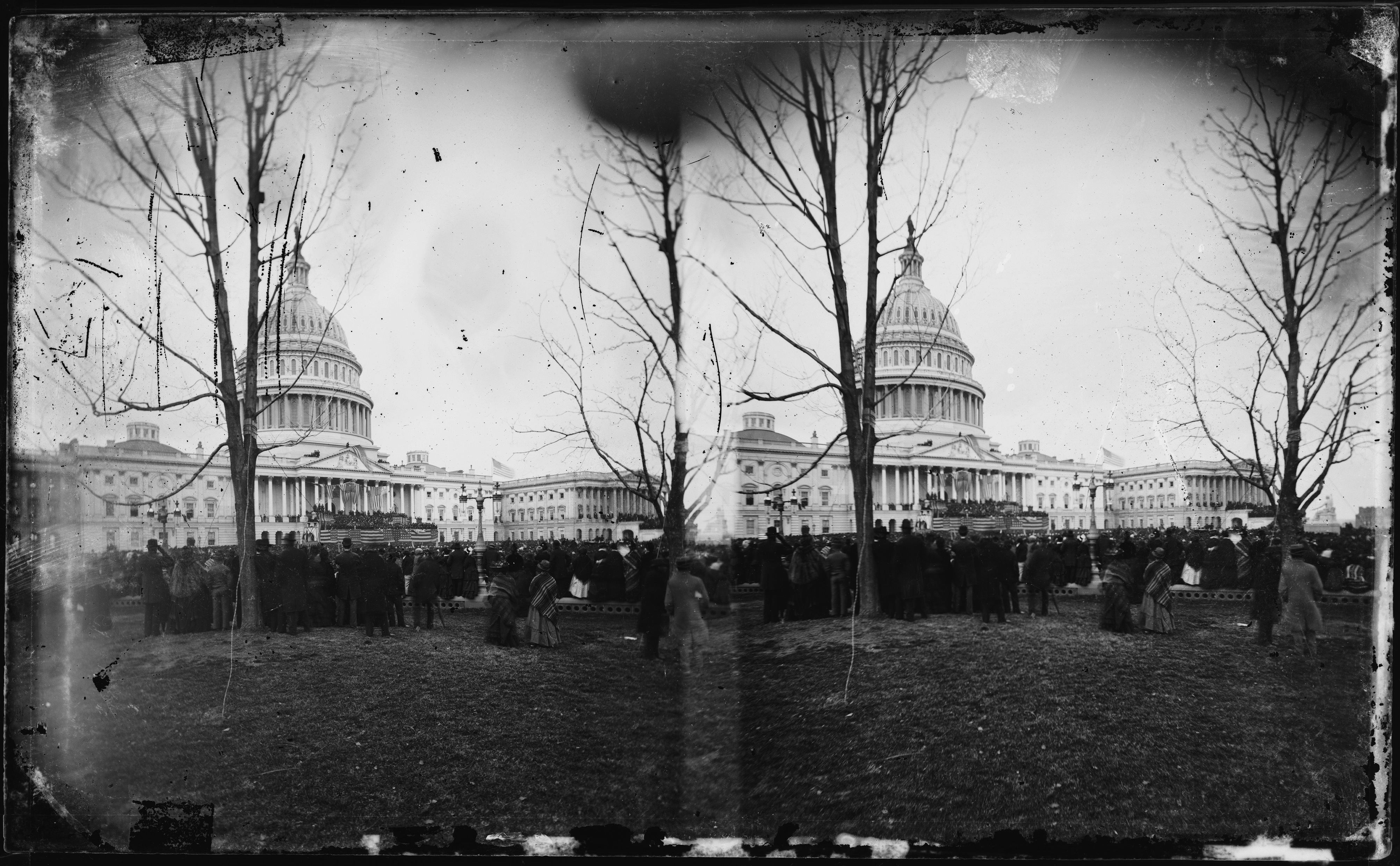 Stereograph of the inauguration of Rutherford B. Hayes as President of the United States.